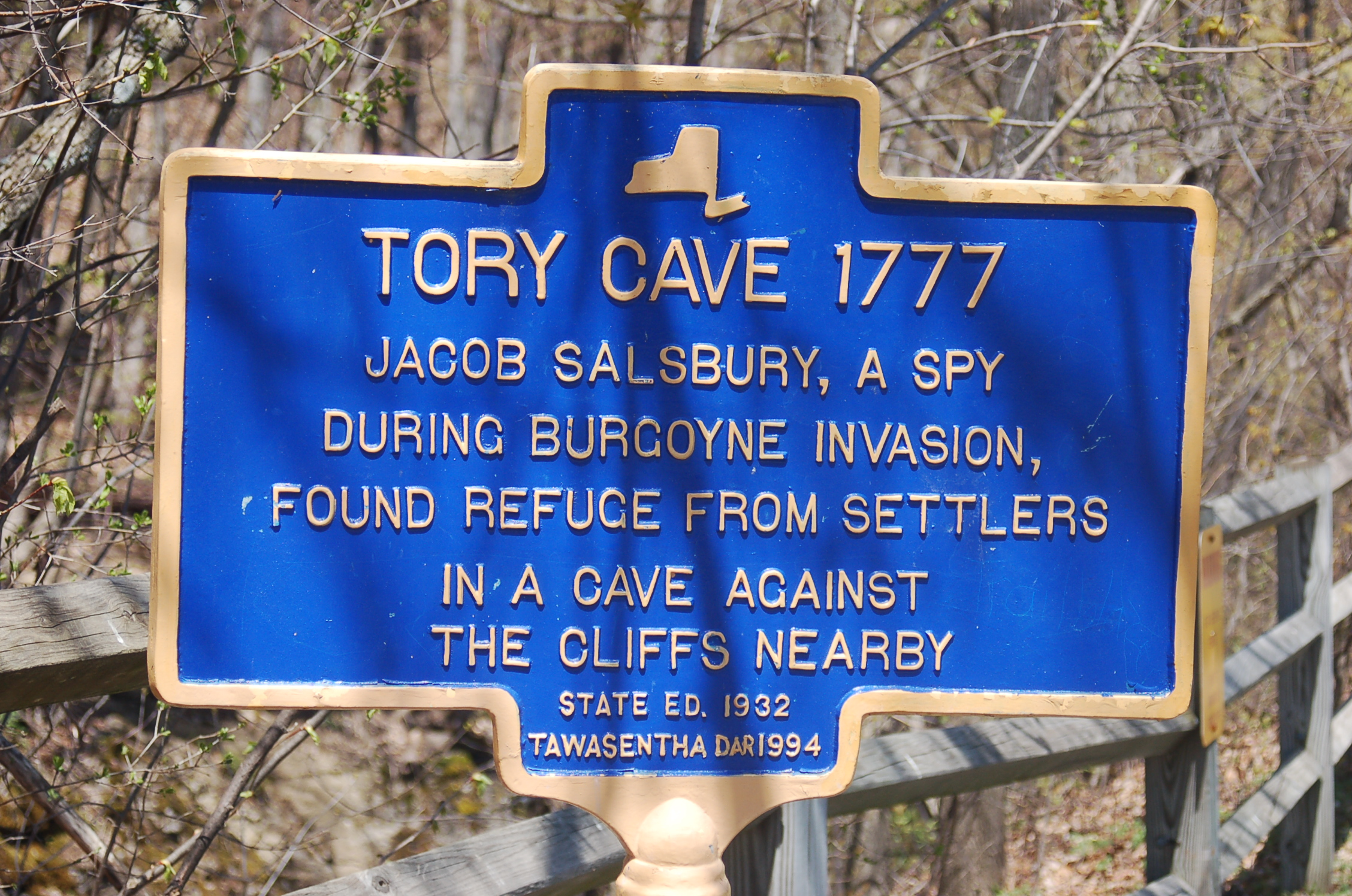 Tory Cave sign at Thacher Park in New Scotland, New York, United States